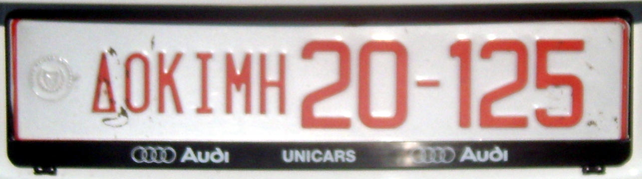 Test licence plate for dealers